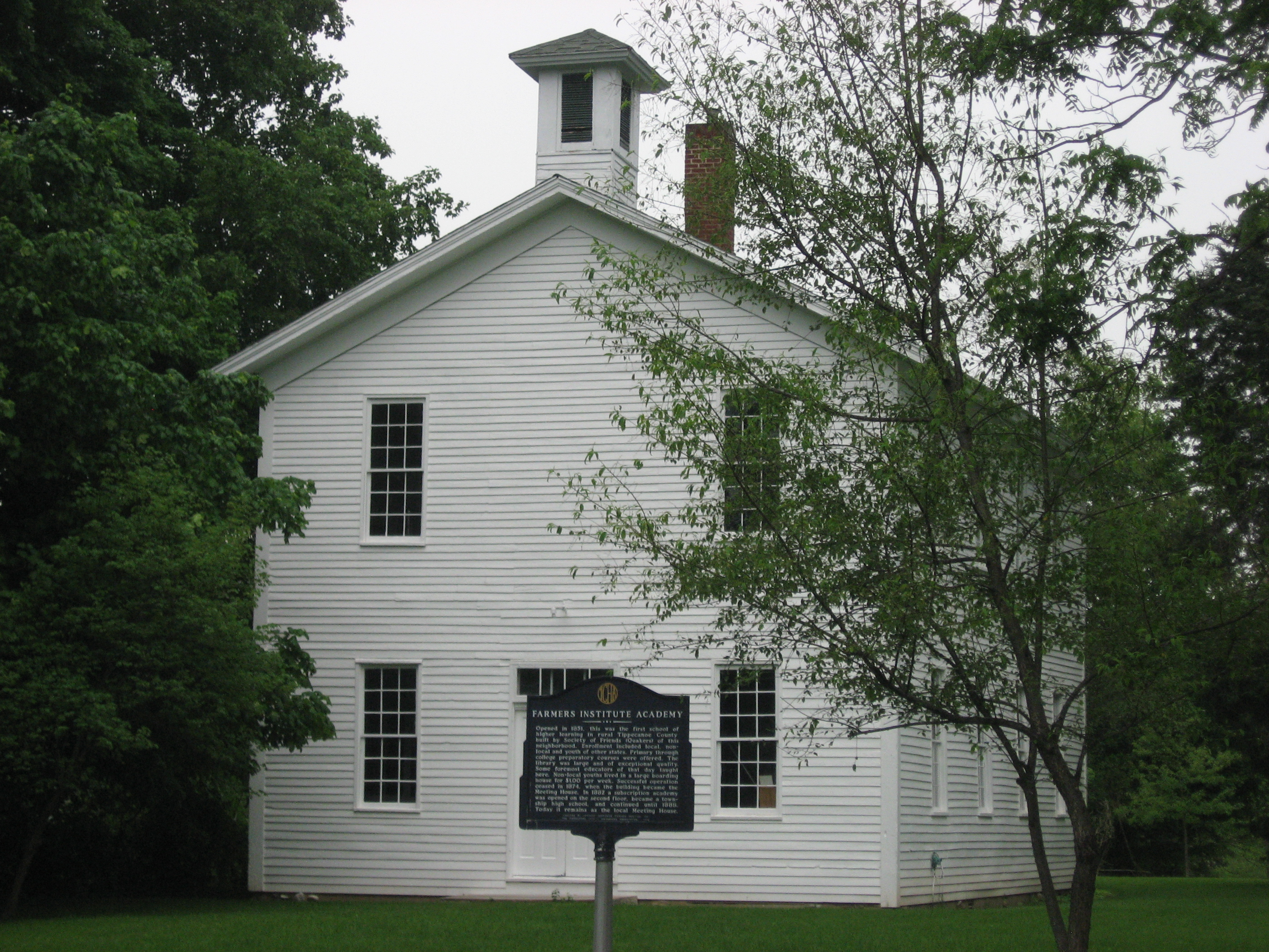 Front of the Farmers Institute, located at 4626 W. 660S in Shadeland, Indiana, United States. Built in 1851, it is listed on the National Register of Historic Places.